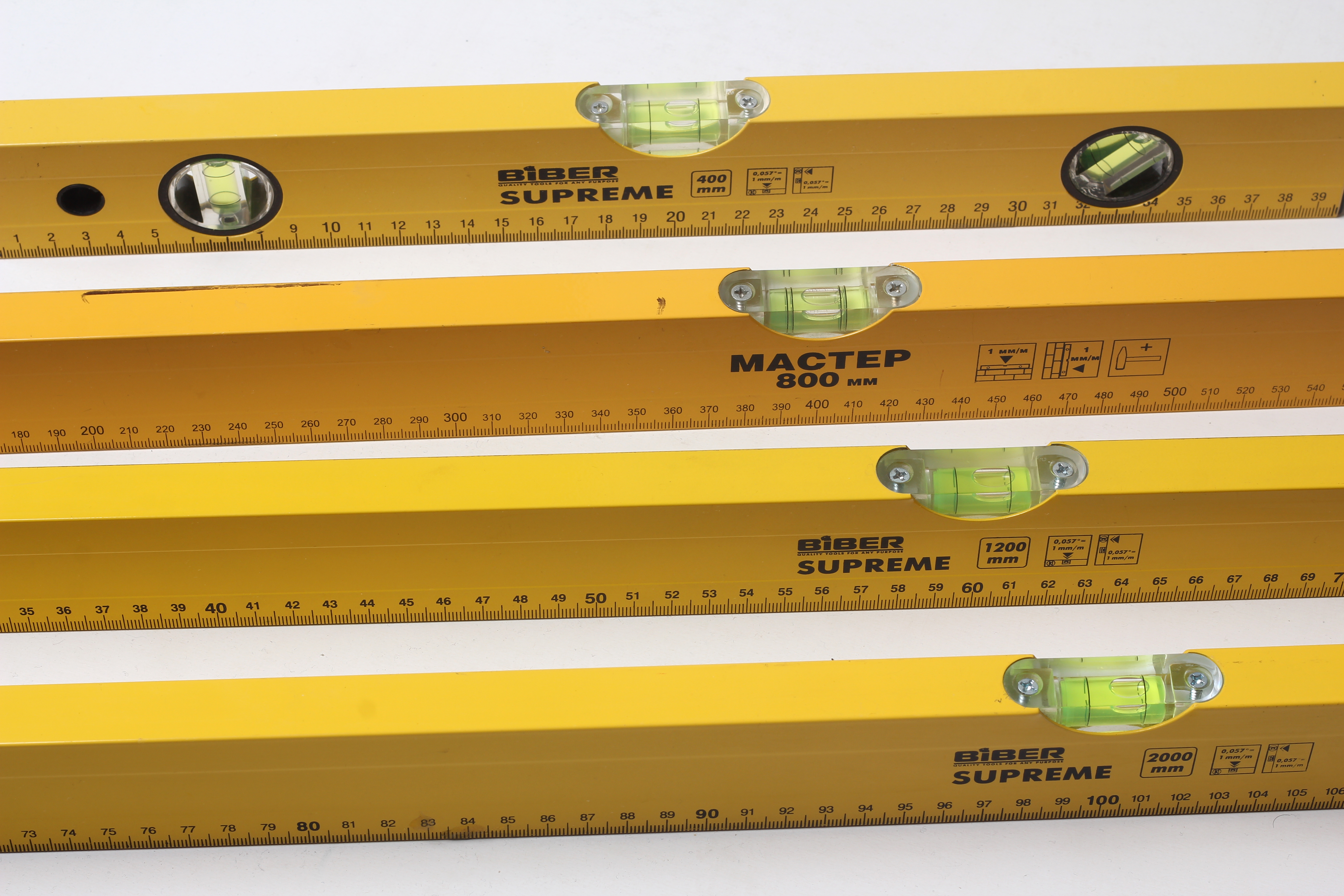 Spirit level. Level is an instrument designed to indicate whether a surface is horizontal (level) or vertical (plumb).